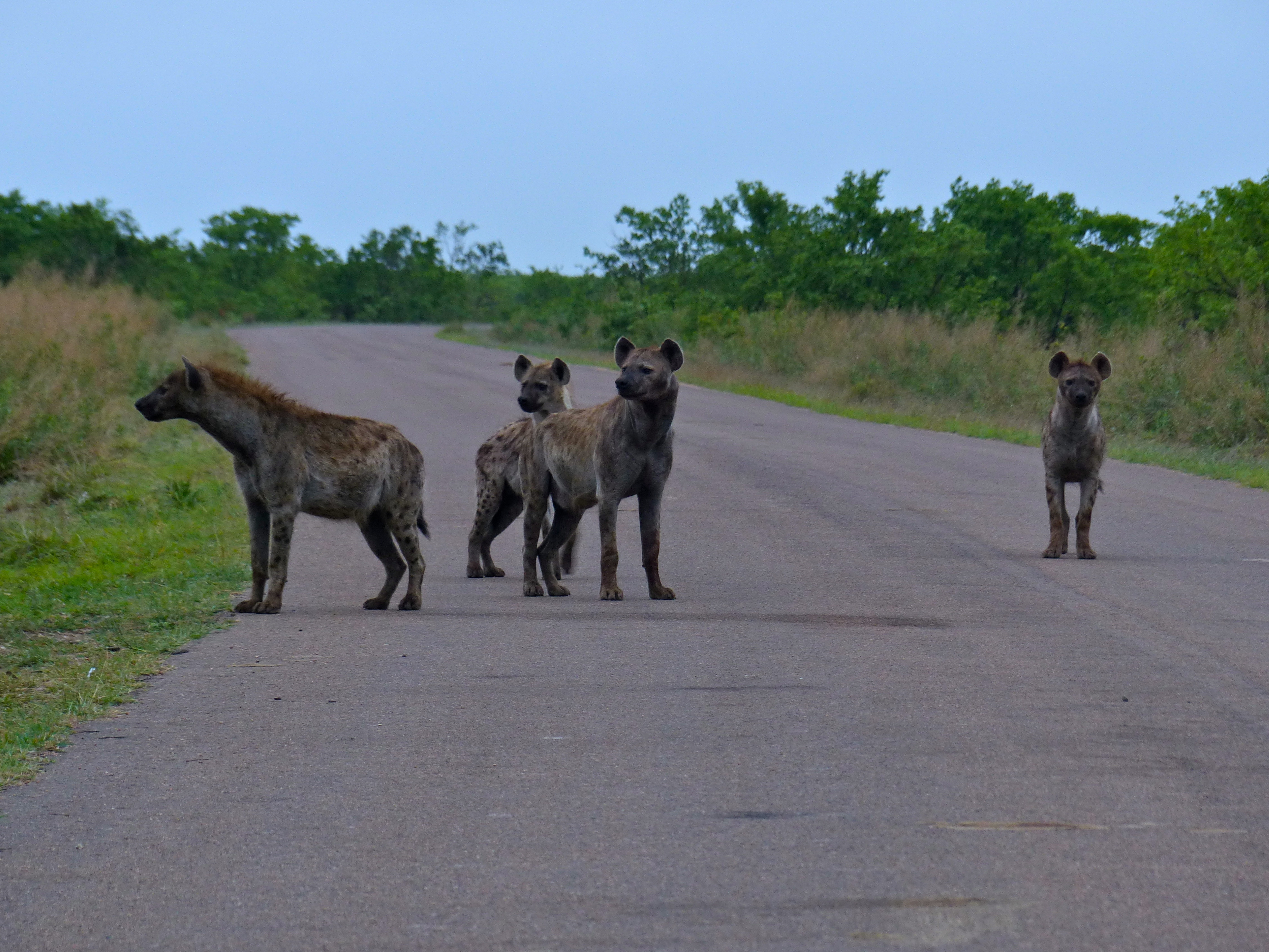 H1-6 Road South of Mopani , Kruger NP, SOUTH AFRICA